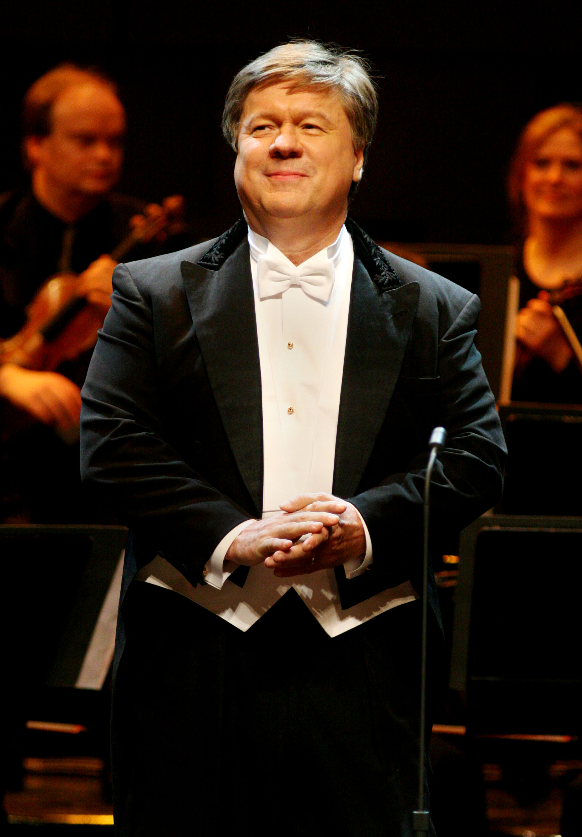 Swedish operatic baritone Håkan Hagegård performs at the 2005 Polar Music Prize ceremony at the Stockholm Concert Hall.